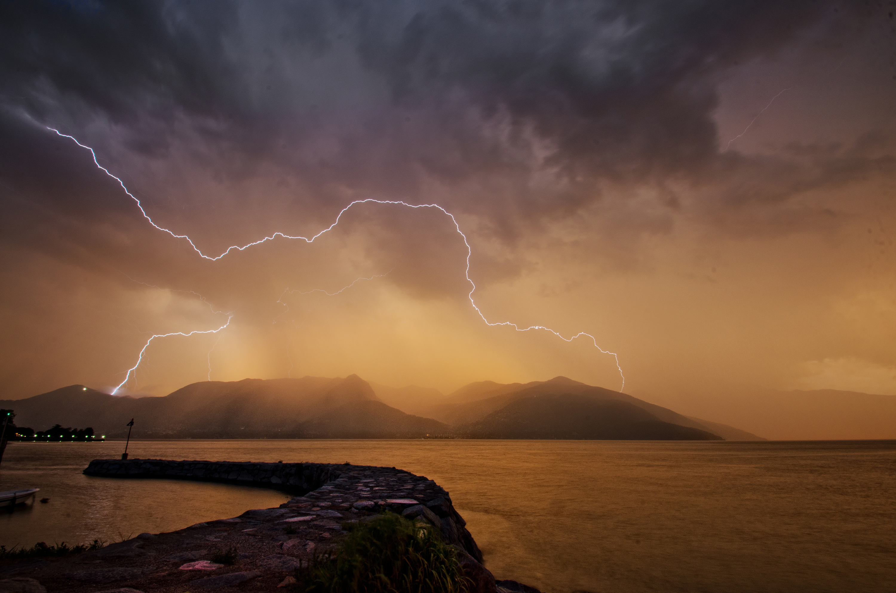 Thunderstorm at Lake Maggiore (view from Luino). A very special day and light.